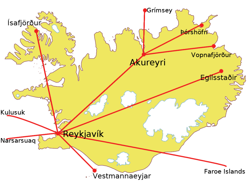 The routes flown by Air Iceland.